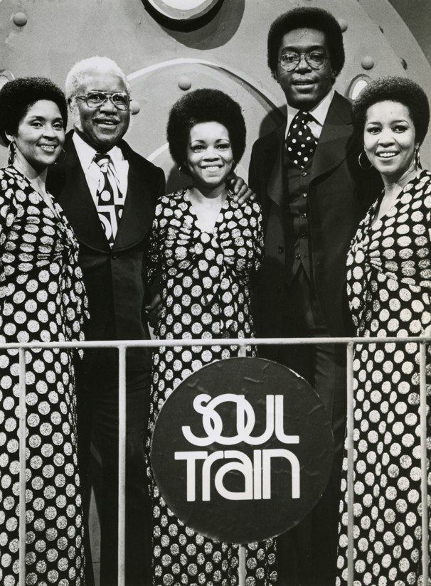 The Staple Singers and Don Cornelius, right, on Soul Train. Publicity photo taken during production of the June 8, 1974 episode (season 3, episode 35).